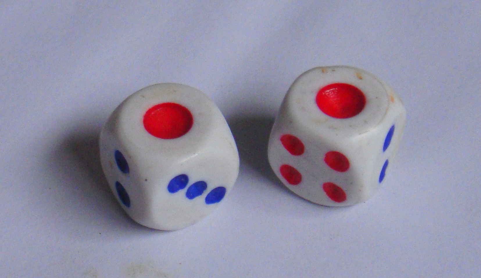 Double ones with Chinese dice